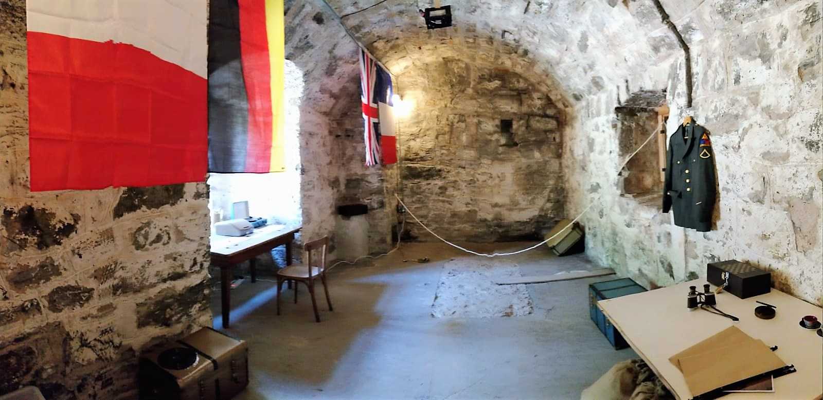 FUGA Escape Room Werk Fort